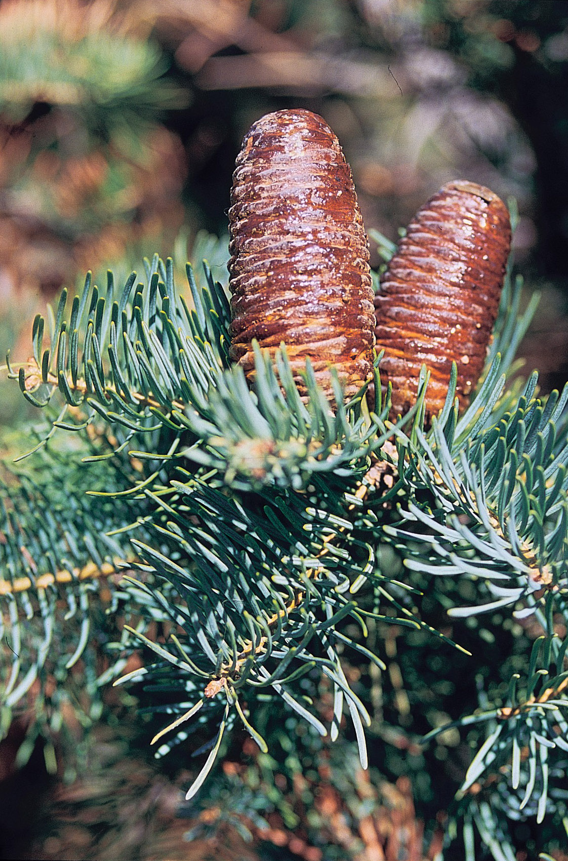 White Fir. Cones.